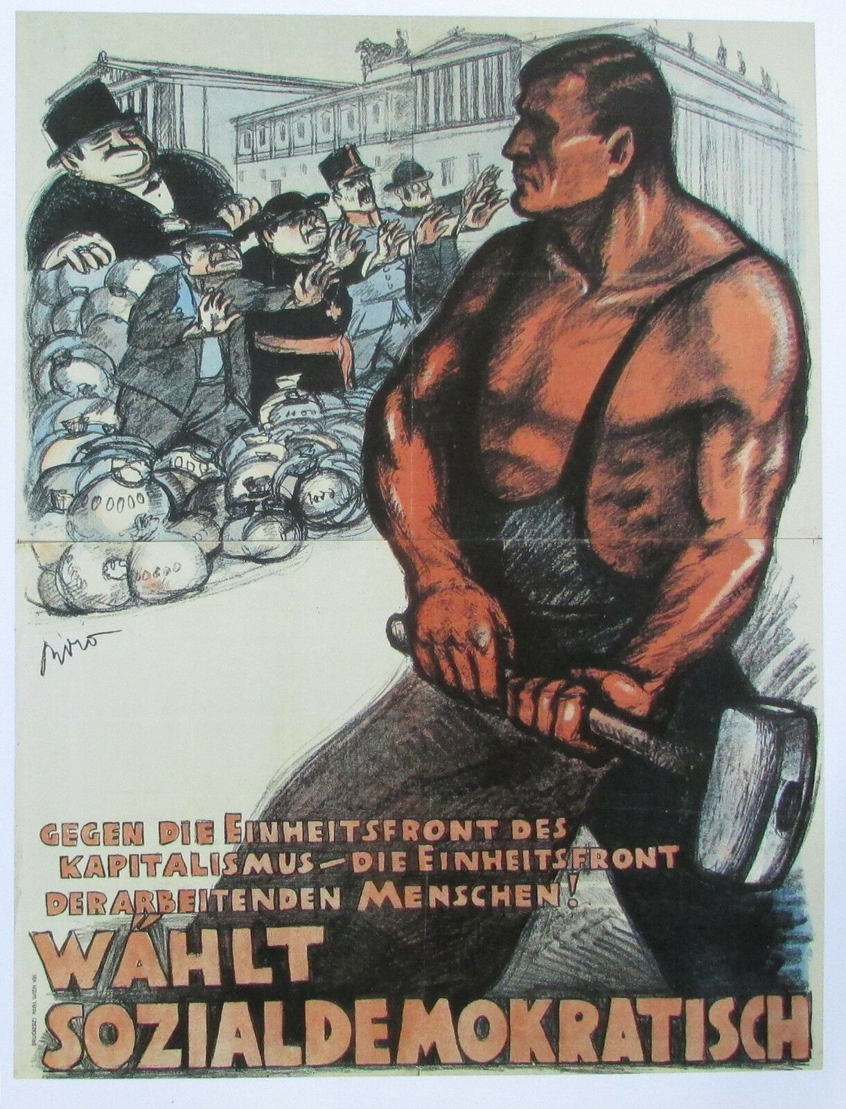 Mihály Bíró: WÄHLT SOZIALDEMOKRATISCH, 1920